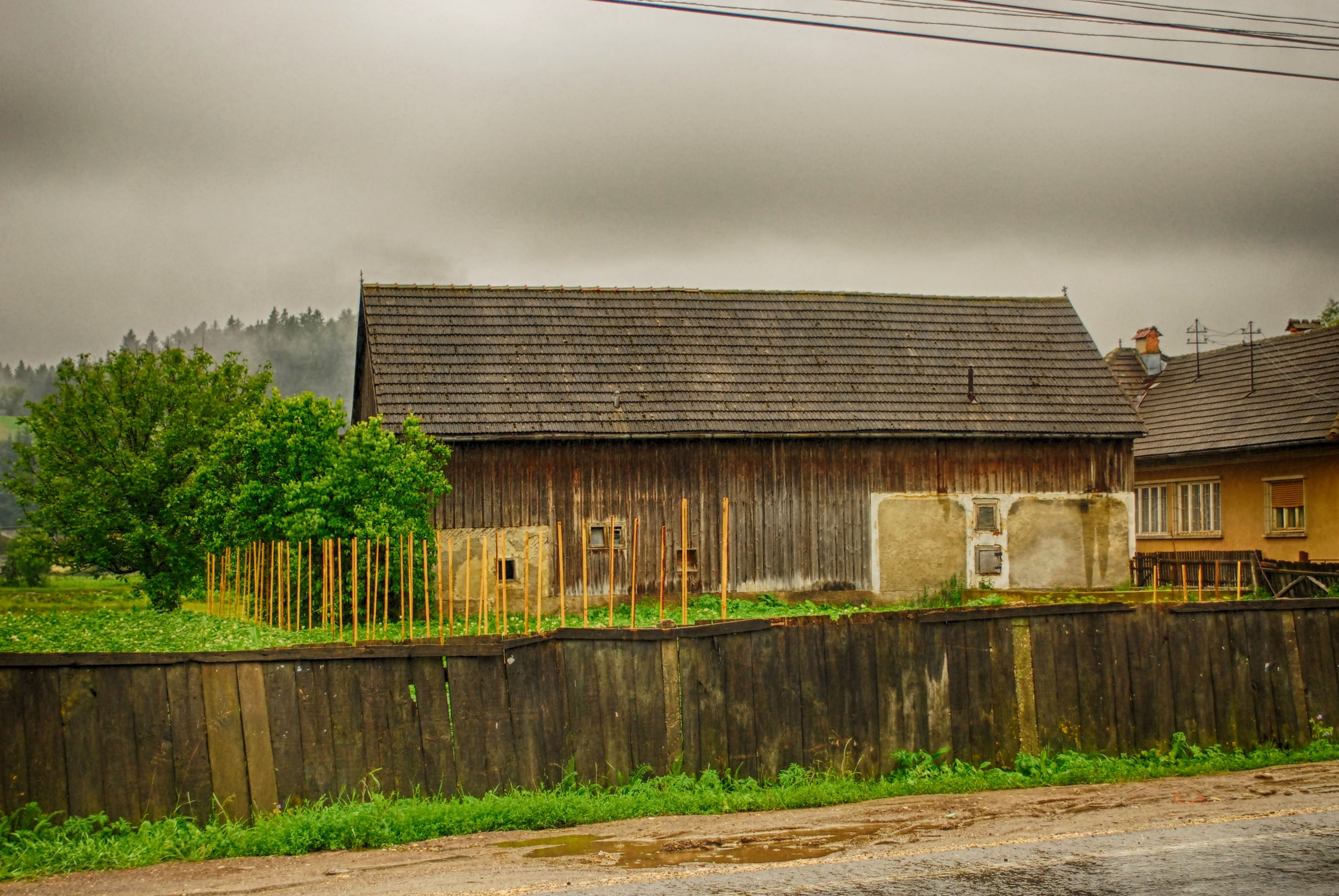 House and mill in Întorsura Buzăului, Covasna County, RomaniaRomână: Casă și moară în Întorsura Buzăului, județul Covasna, România